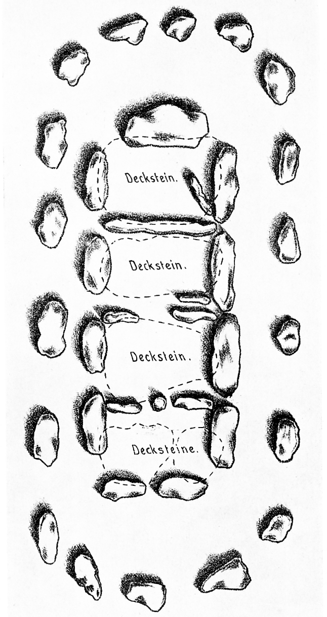 Megalithic Tomb at Schwinge (Sprockhoff-No. 546)